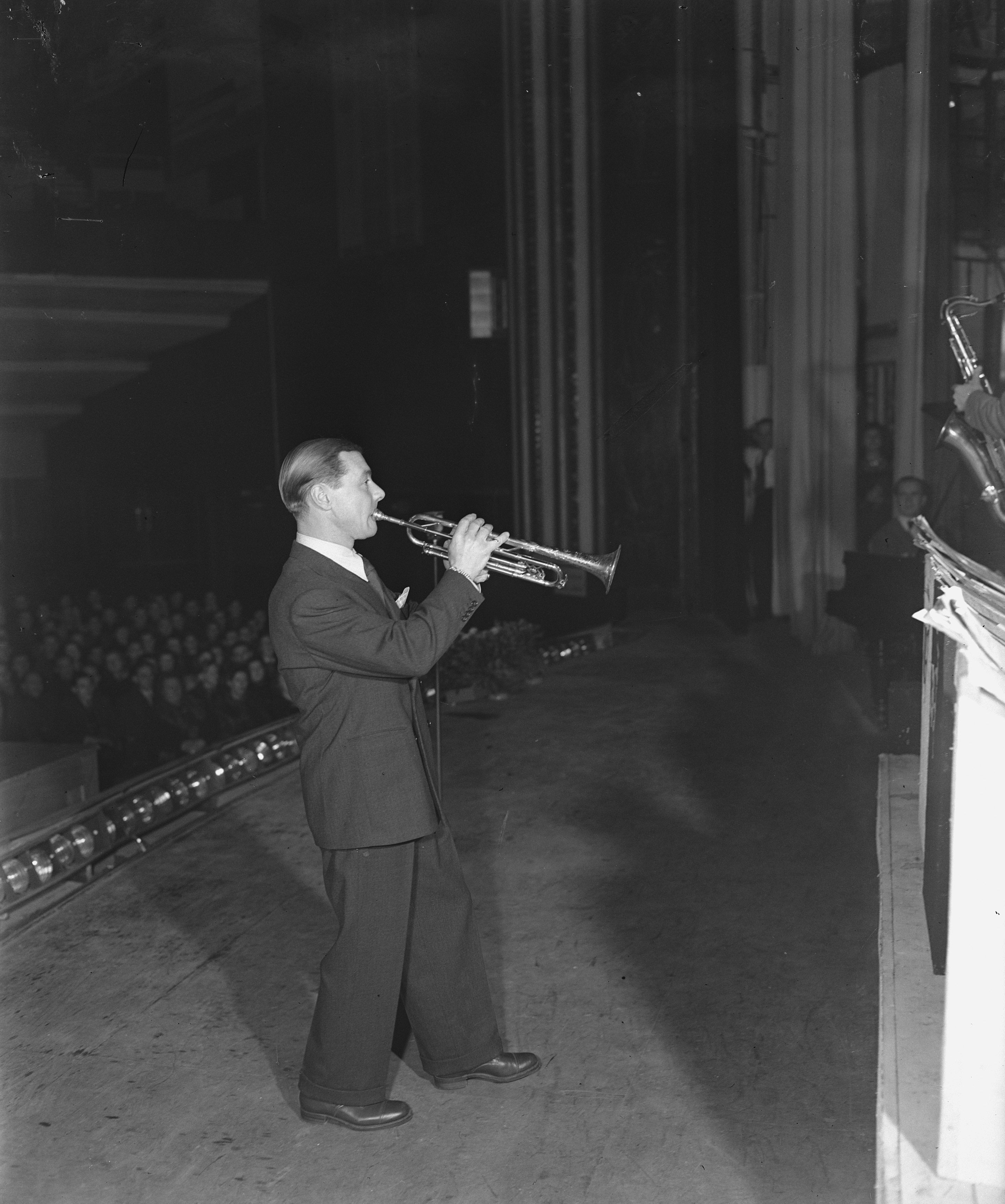 Nat Gonella touring the Netherlands, 6 Febr. 1946.